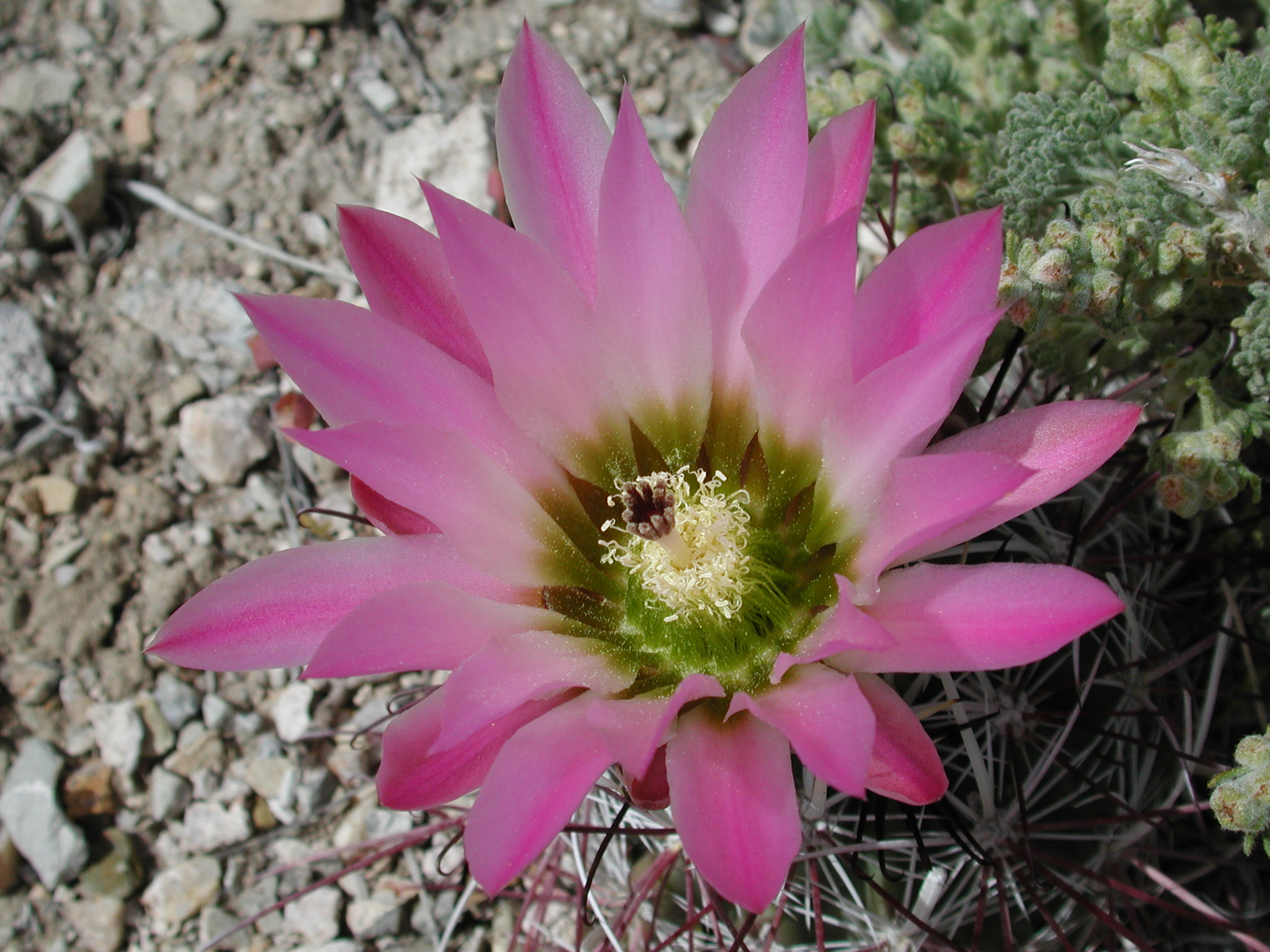 First collected by J.M.Bigelow, headwaters of the Mojave R., 1854.03.15, as the Whipple Railroad Survey neared Cajon Pass. Originally named Echinocactus polyancistrus by Engelmann and Bigelow. Photographed 2001.05.16 in Death Valley NP.